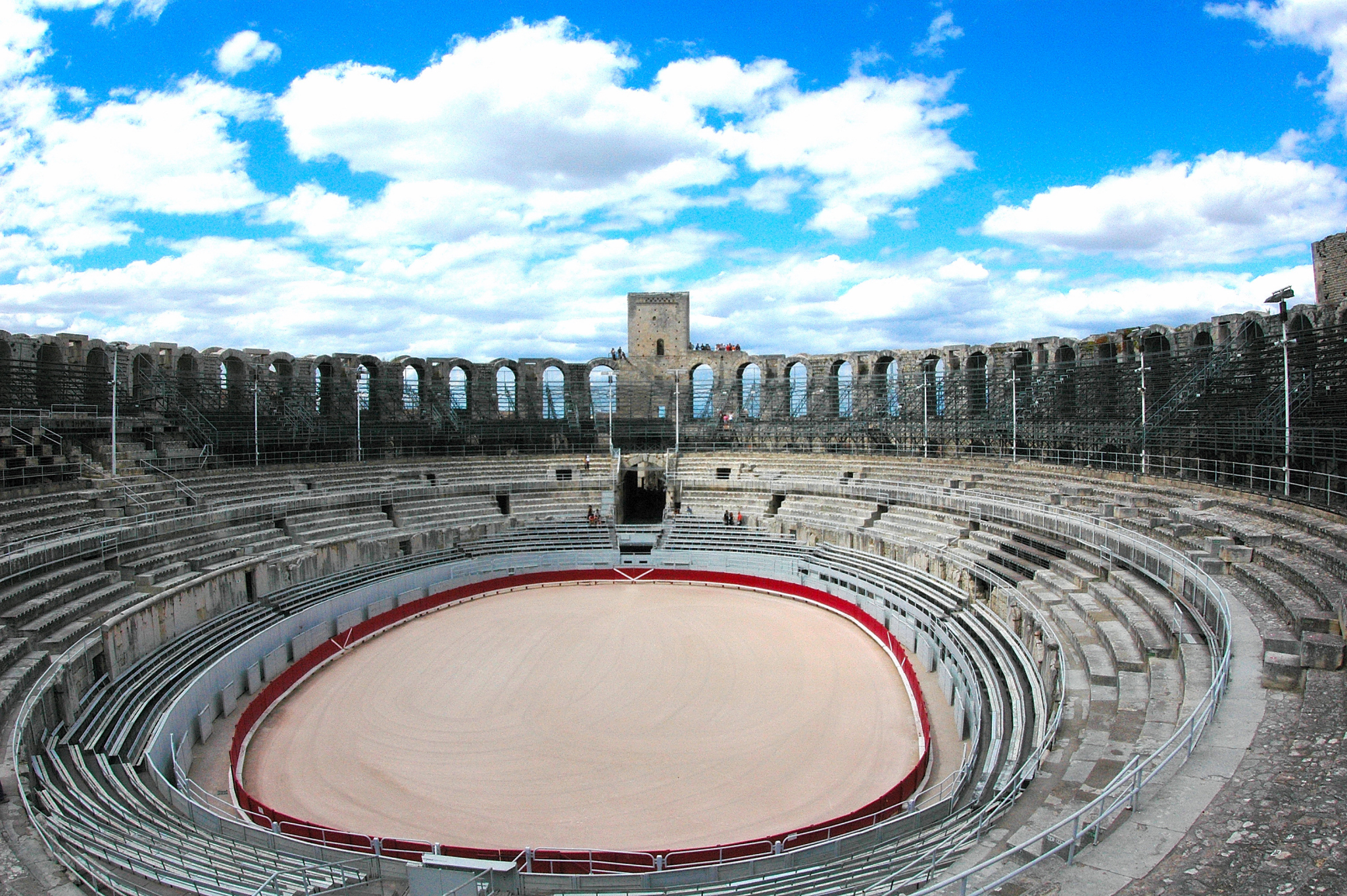 Roman Arena of Arles, France